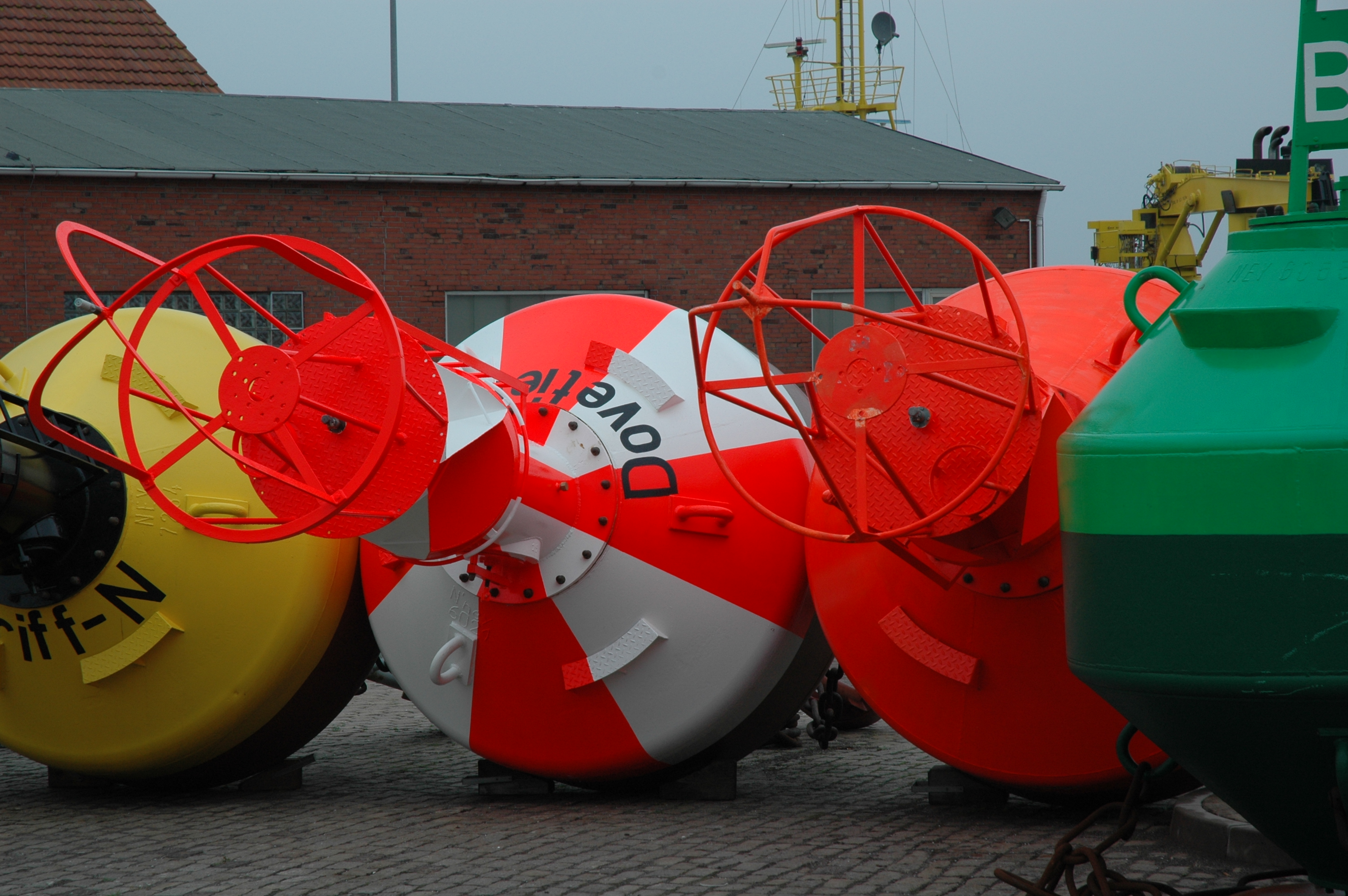 The buoy depot at the WSA (Waterways and Shipping Authority) of Norderney, northern Germany.